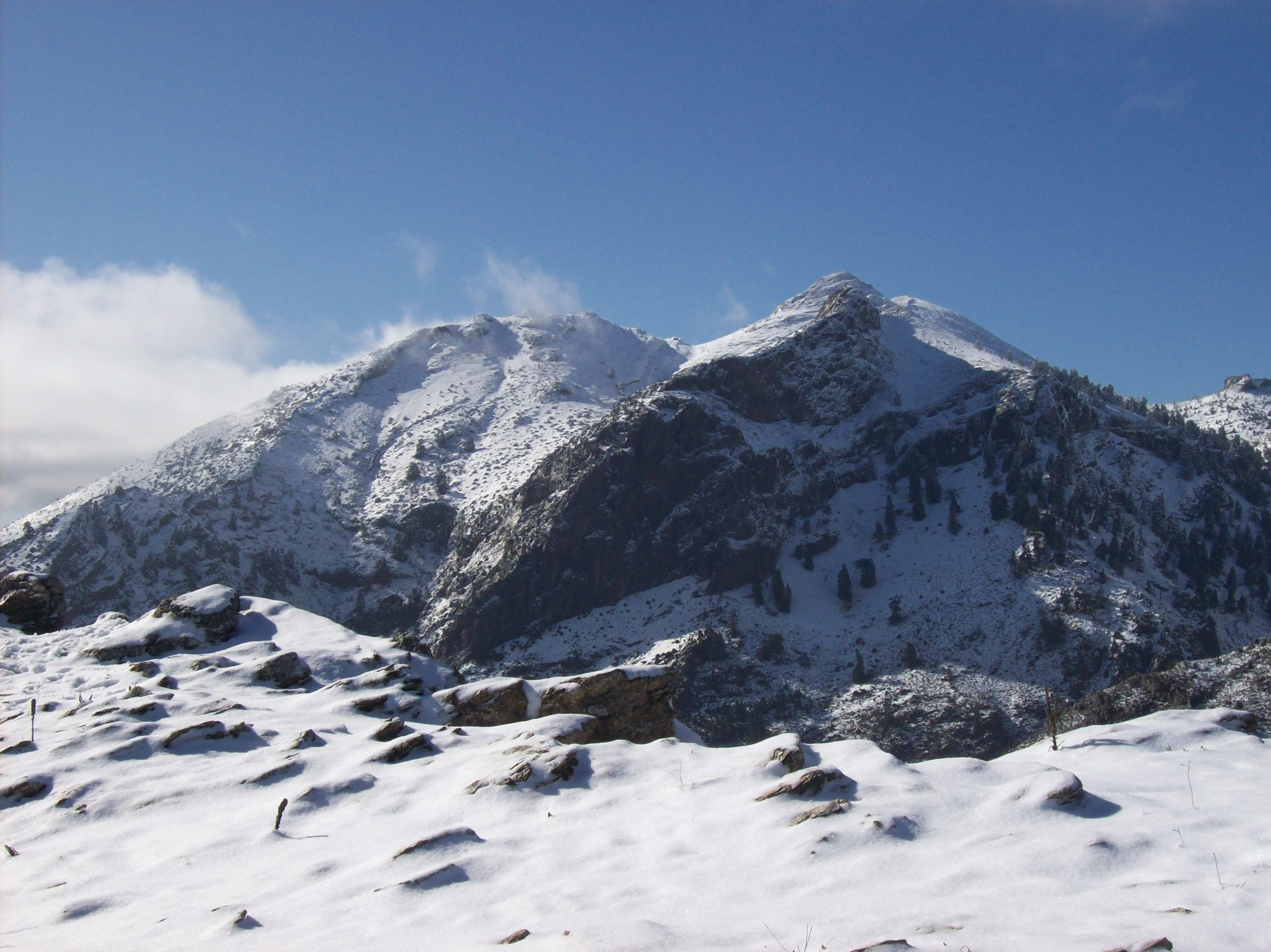 Foto panorámica del pico Torrecilla nevado.